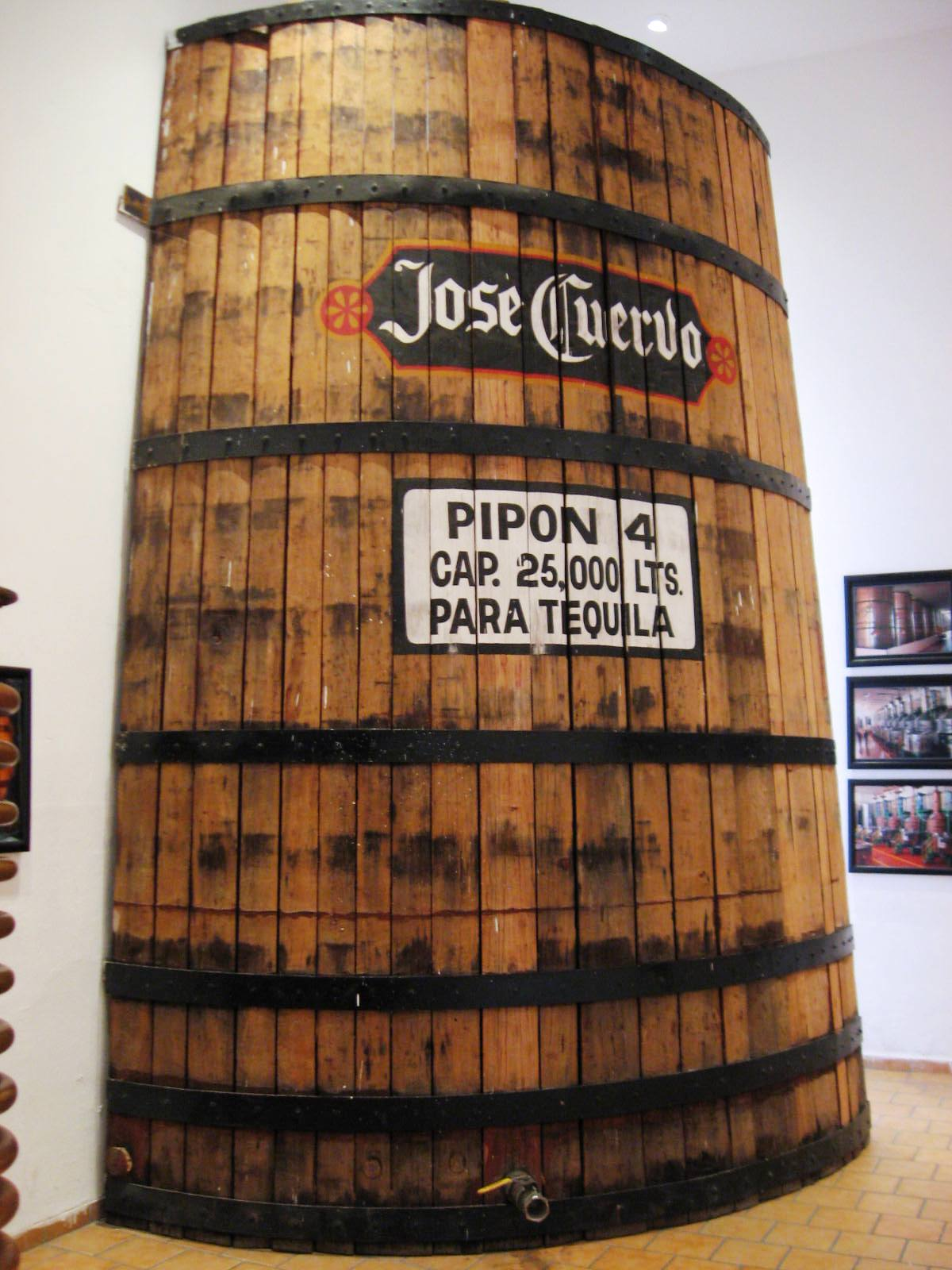 Portion of a large fermentation vat on display at the National Museum of Tequila in Tequila, Jalisco Mexico